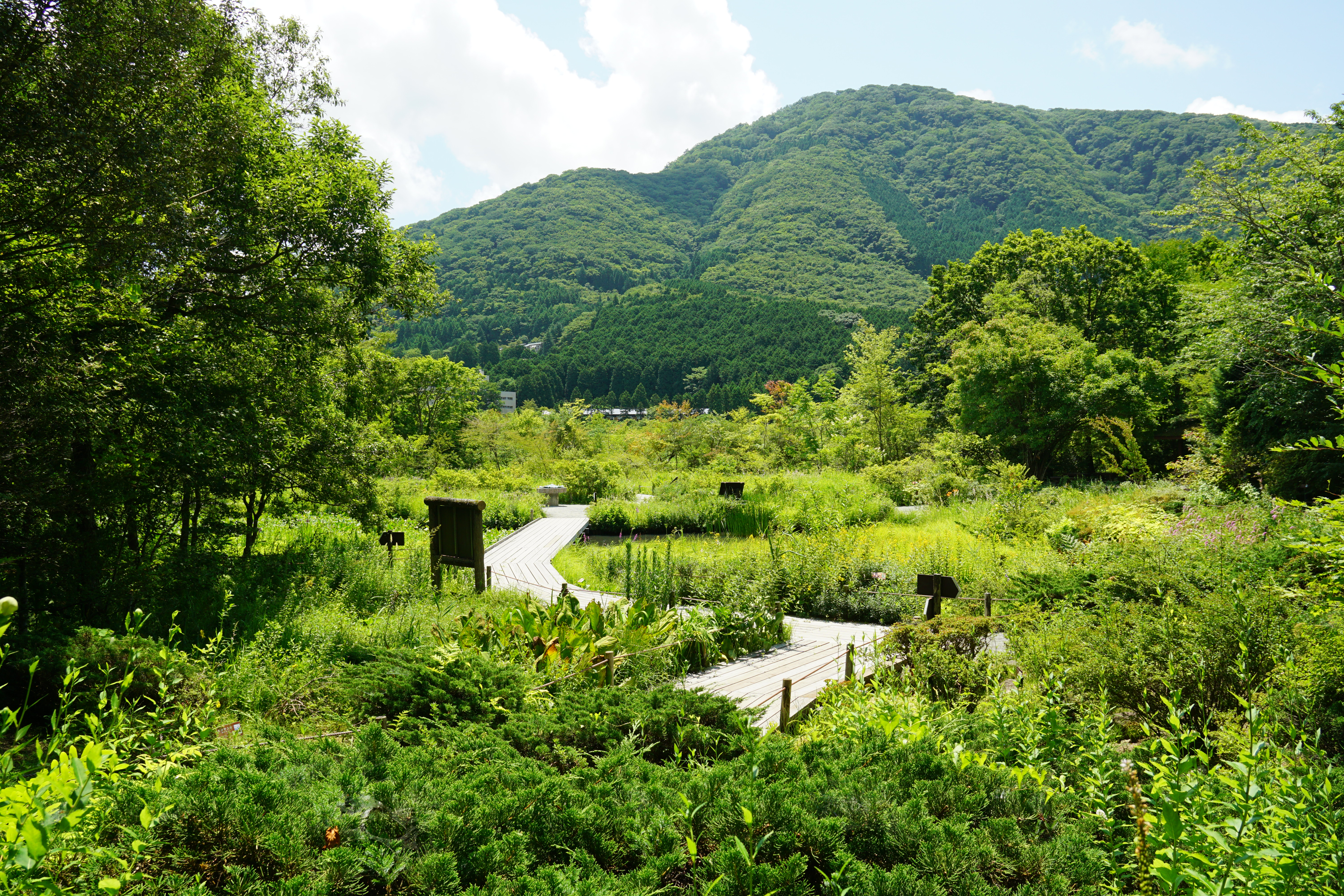 Hakone Botanical Garden of Wetlands in Hakone, Kanagawa prefecture, Japan